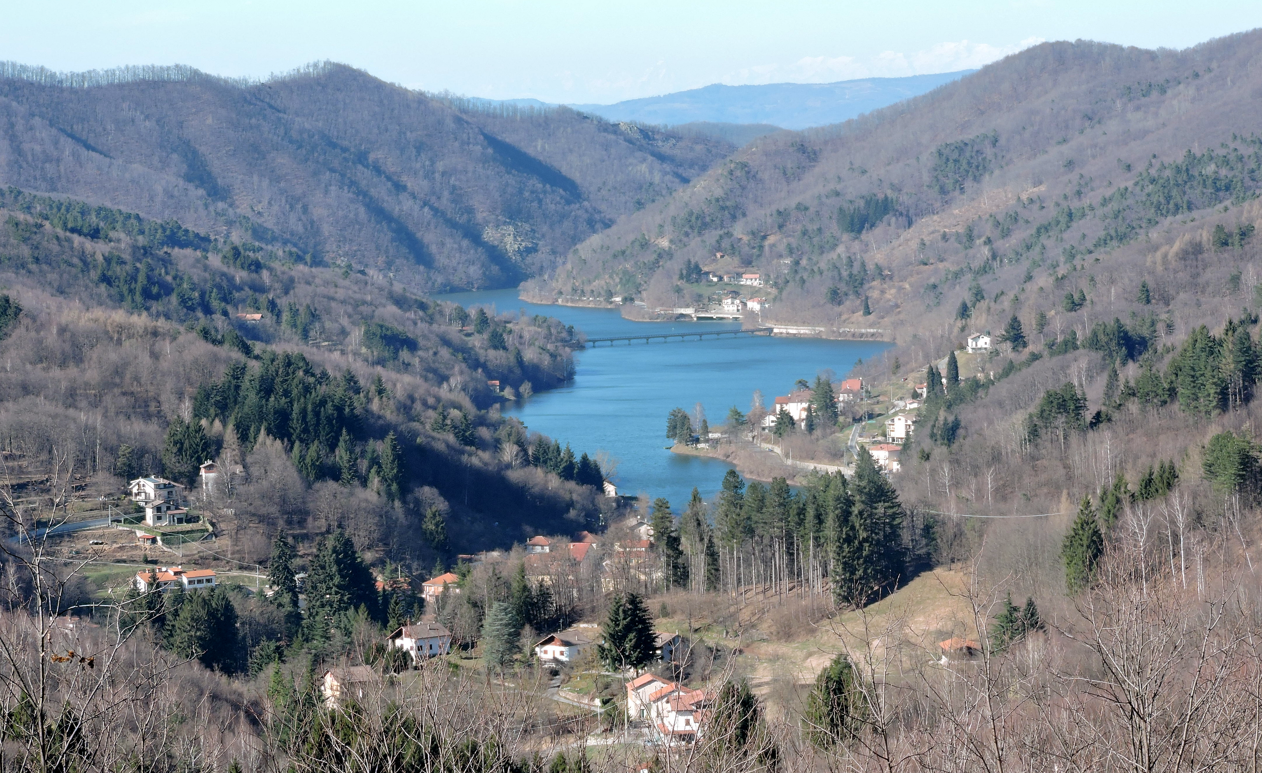 Lake Osiglia from nr.16 provincial road (SV, Italy) This is a photography of Natura 2000 protected area with ID IT1323115